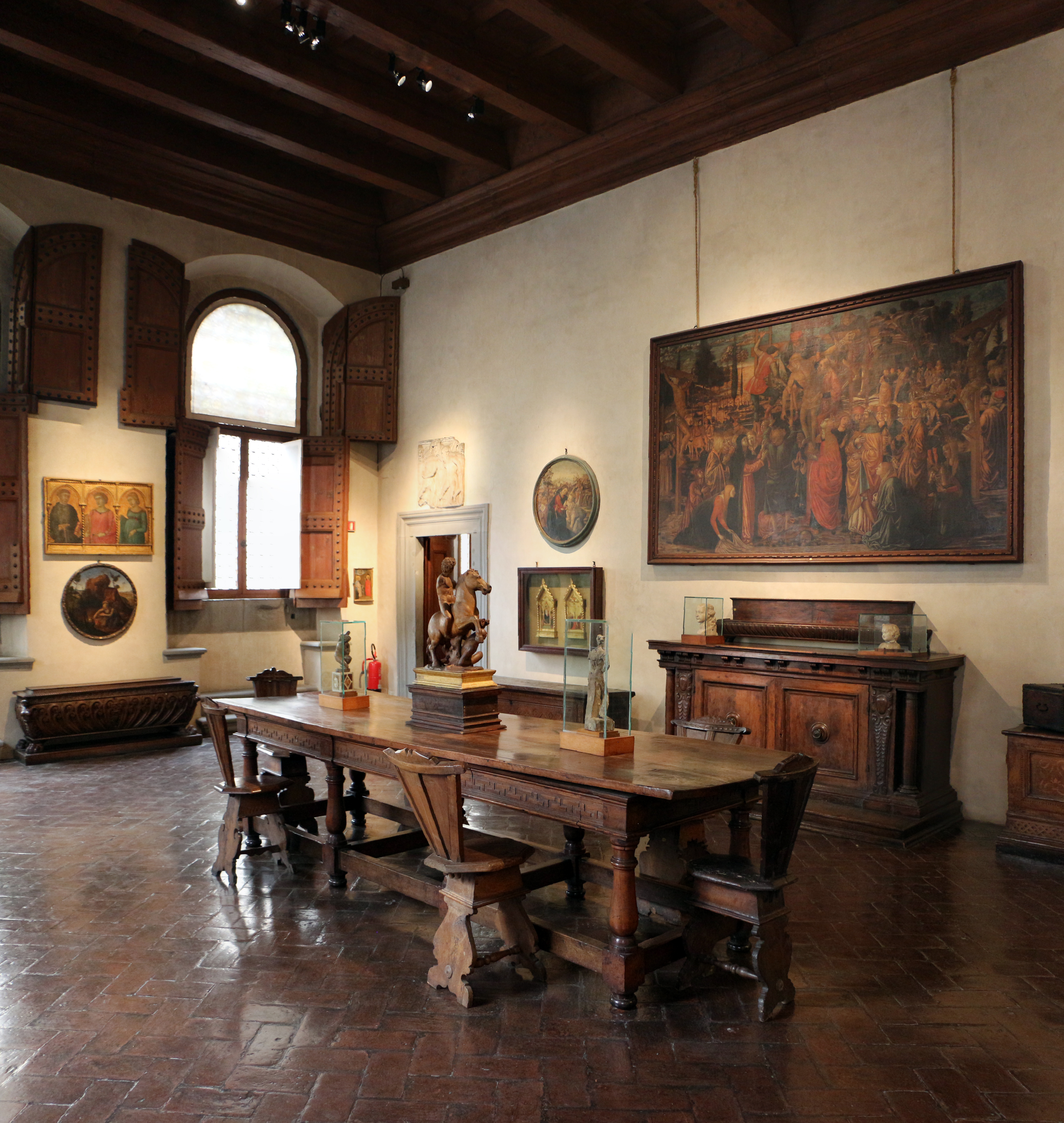 Museo Horne, Florence